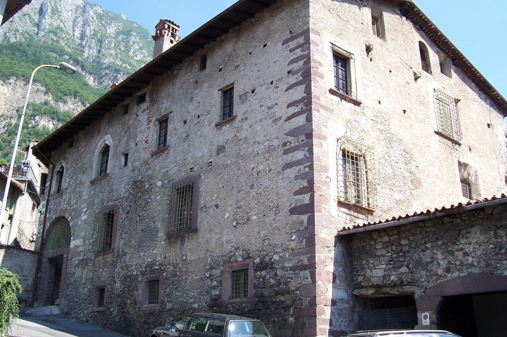 Erbanno, Federici's palace, Val Camonica